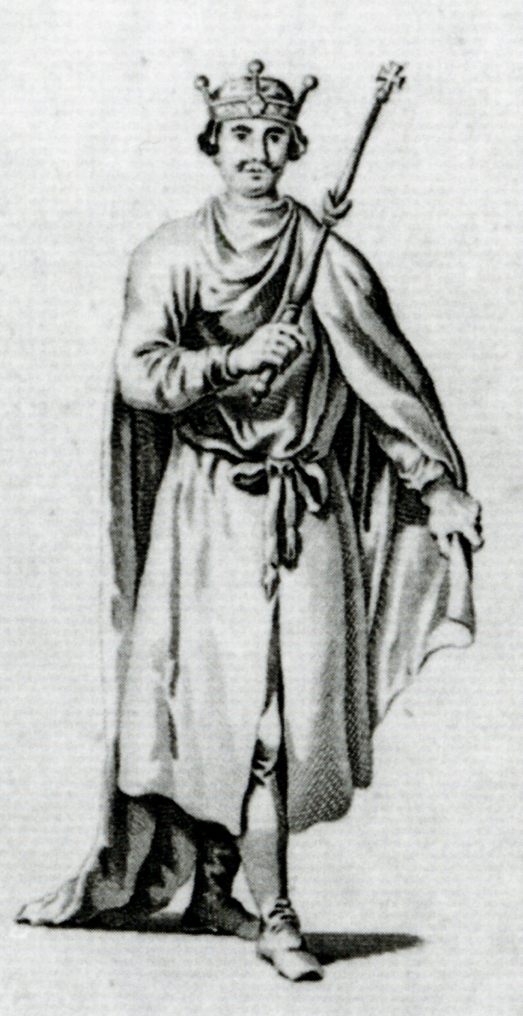 King William II (William Rufus) by Rennoldson, probably after Samuel Wale. Probably mid 18th century. National Portrait Gallery: NPG D8111 While Commons policy accepts the use of this media, one or more third parties have made copyright claims against Wikimedia Commons in relation to the work from which this is sourced or a purely mechanical reproduction thereof. This may be due to recognition of the "sweat of the brow" doctrine, allowing works to be eligible for protection through skill and labour, and not purely by originality as is the case in the United States (where this website is hosted). These claims may or may not be valid in all jurisdictions. As such, use of this image in the jurisdiction of the claimant or other countries may be regarded as copyright infringement. Please see Commons:When to use the PD-Art tag for more information.See User:Dcoetzee/NPG legal threat for original threat and National Portrait Gallery and Wikimedia Foundation copyright dispute for more information. This tag does not indicate the copyright status of the attached work. A normal copyright tag is still required. See Commons:Licensing.